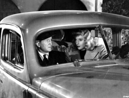 Promotional still from the 1944 film Double Indemnity